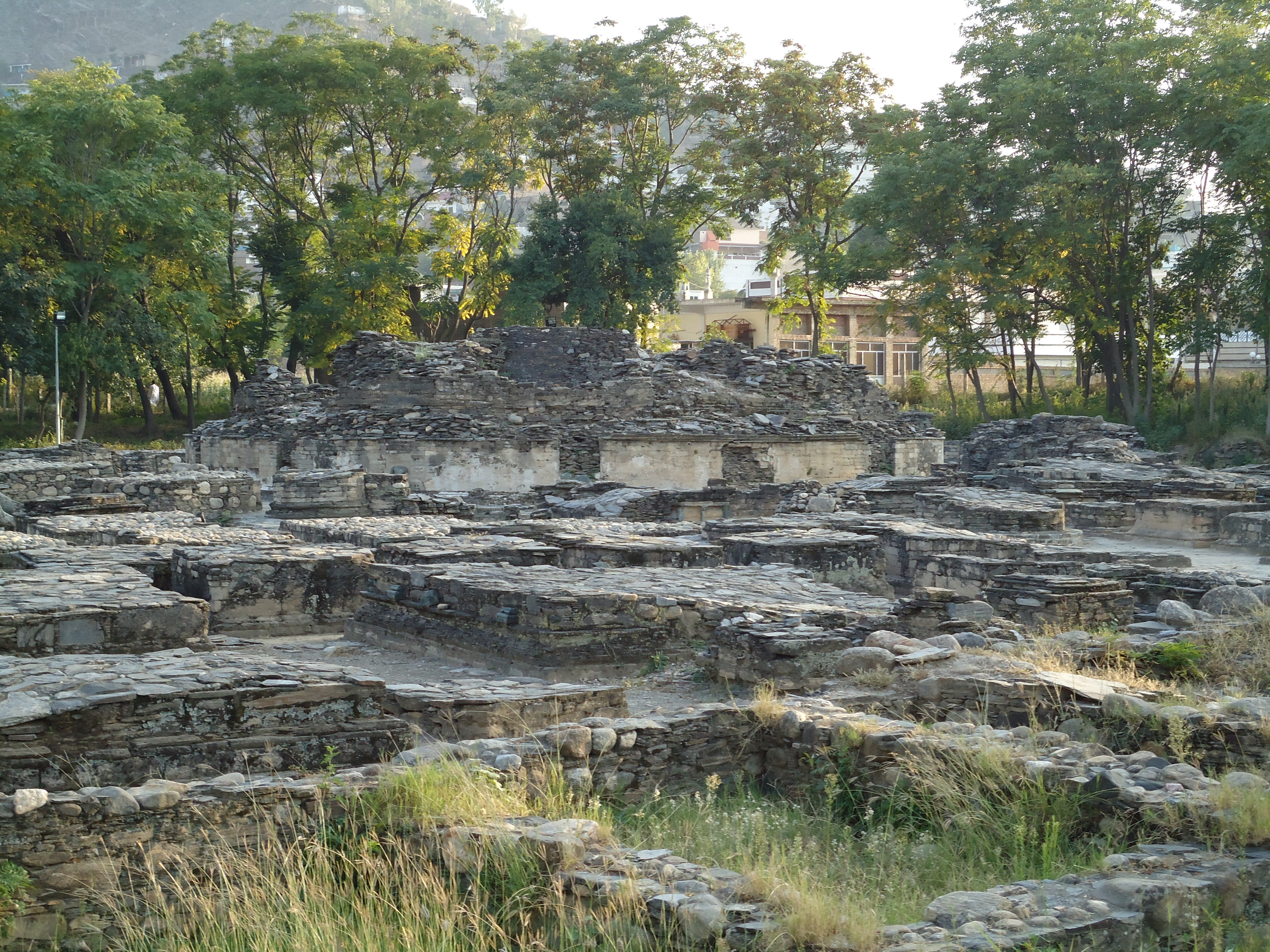 Butkara-I This is a photo of a monument in Pakistan identified as the KPK-65